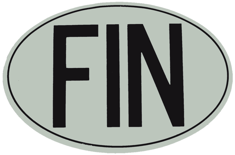 Finland - country identificator for vehicles